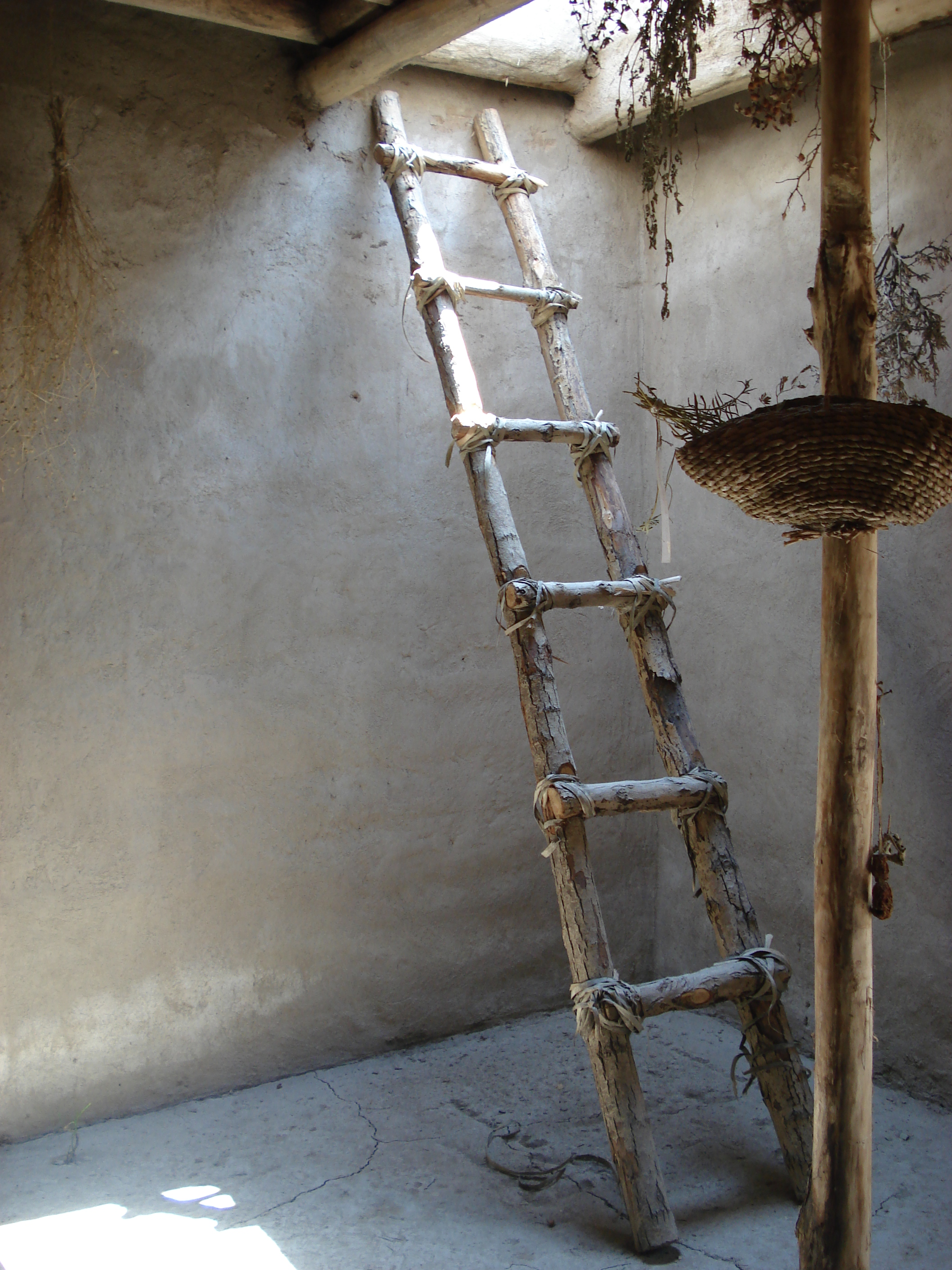 Reconstruction of the entrance ladder at Aşıklı Höyük